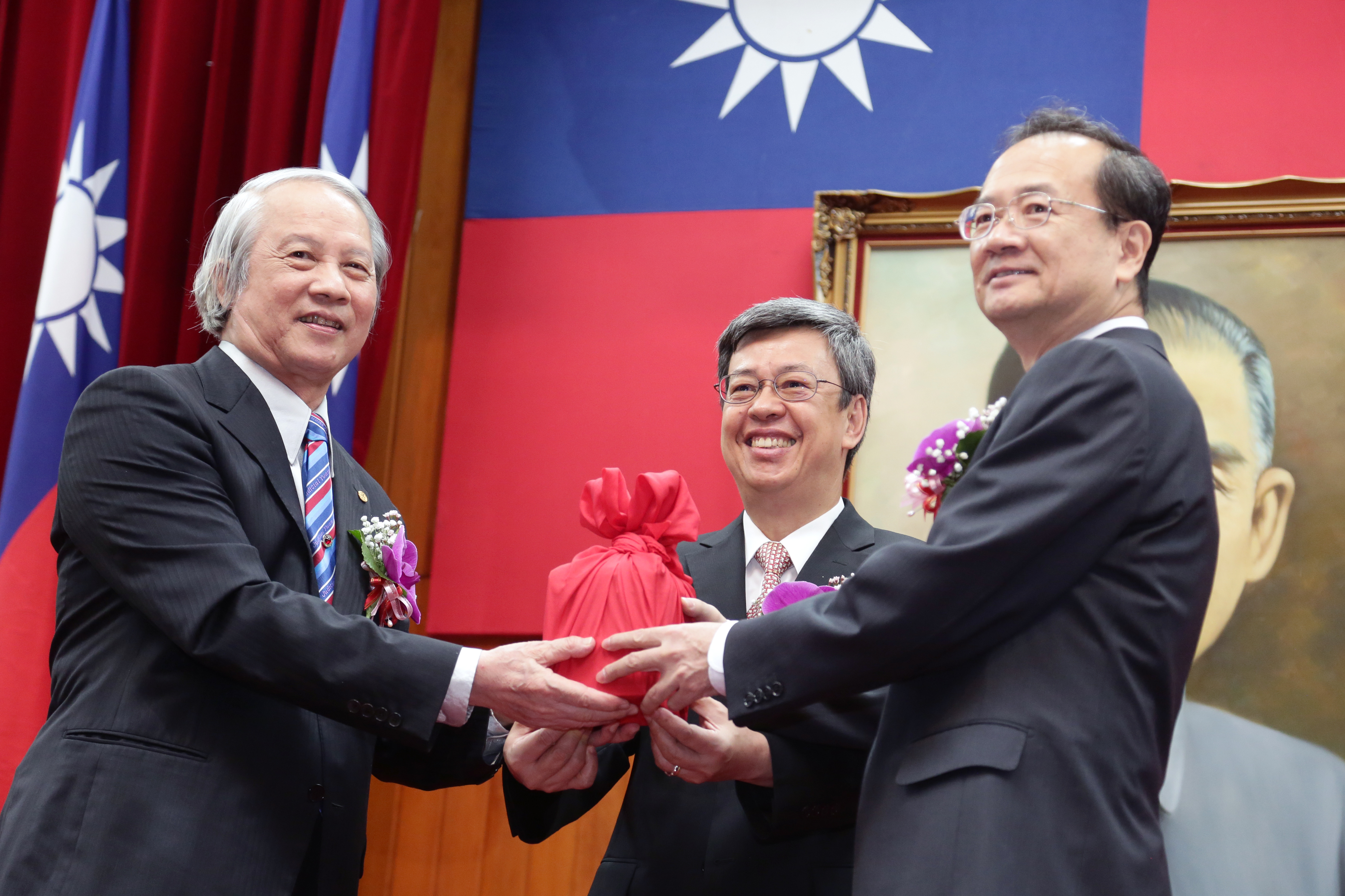 授權方式及範圍：中華民國總統府│政府網站資料開放宣告 Authorization Method & Scope: Office of the President, Republic of China (Taiwan) | Government Website Open Information Announcement